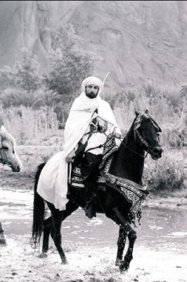 A photo of the Souk Ahras Resistant Mohamed El Keblouti, the leader of the 1871 revolt